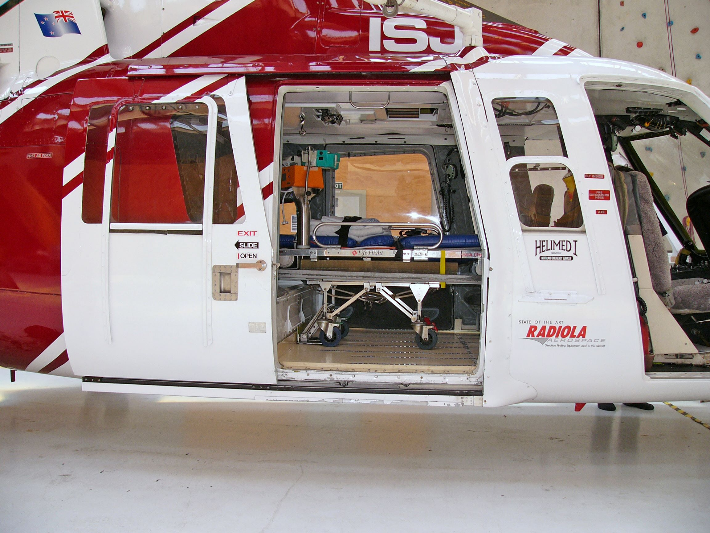 The Northland Emergency Services Trust helicopter. More photos at